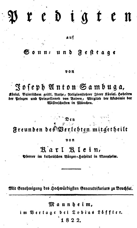 Predigten von Joseph Anton Sambuga, publiziert von Karl Klein (1769-1824)